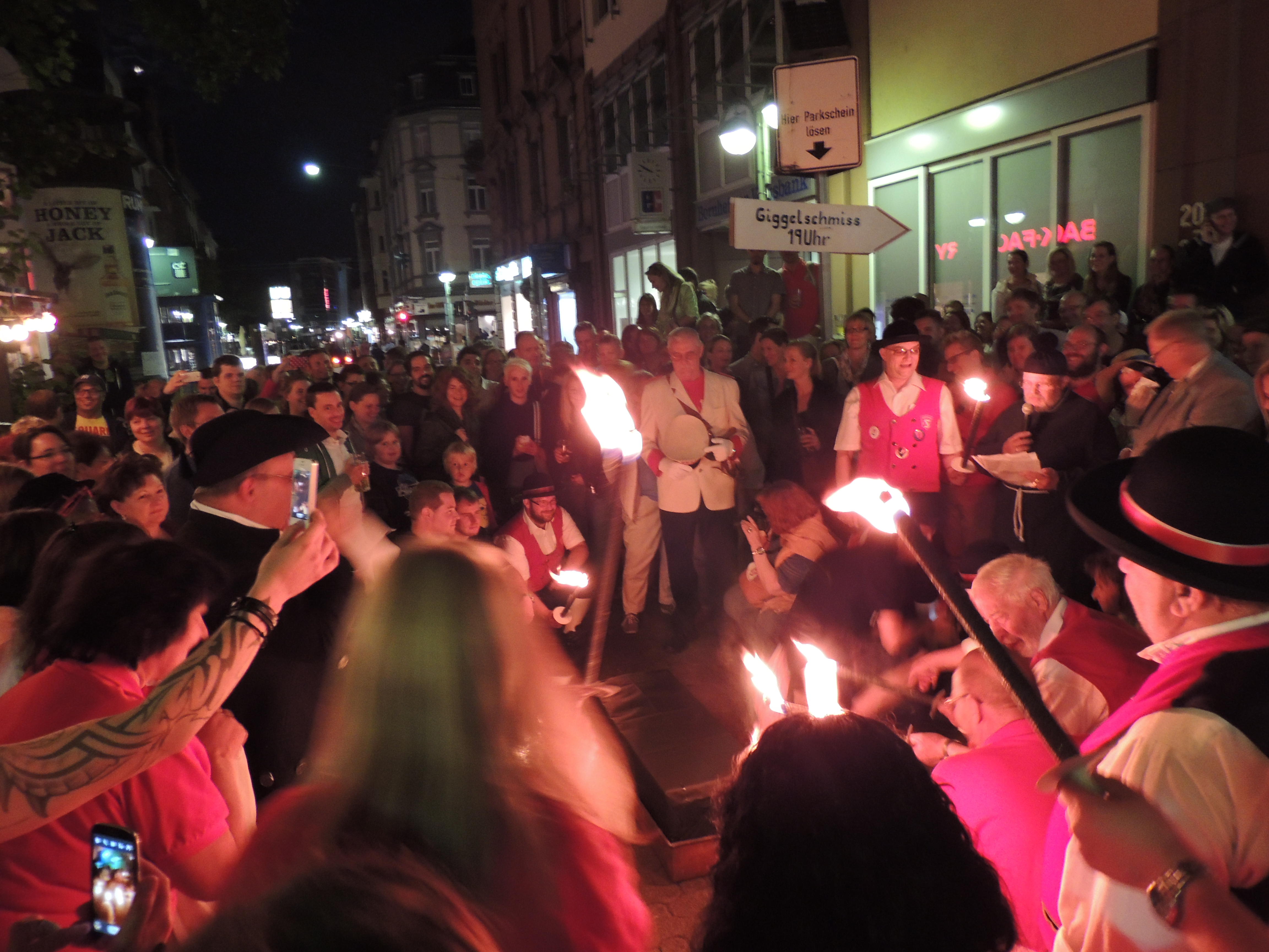 Symbolic burning of the Kerbelisbeth on the Bernemer Kerb Wednesday in the Berger Straße in Frankfurt am Main-Bornheim, August 14th, 2013